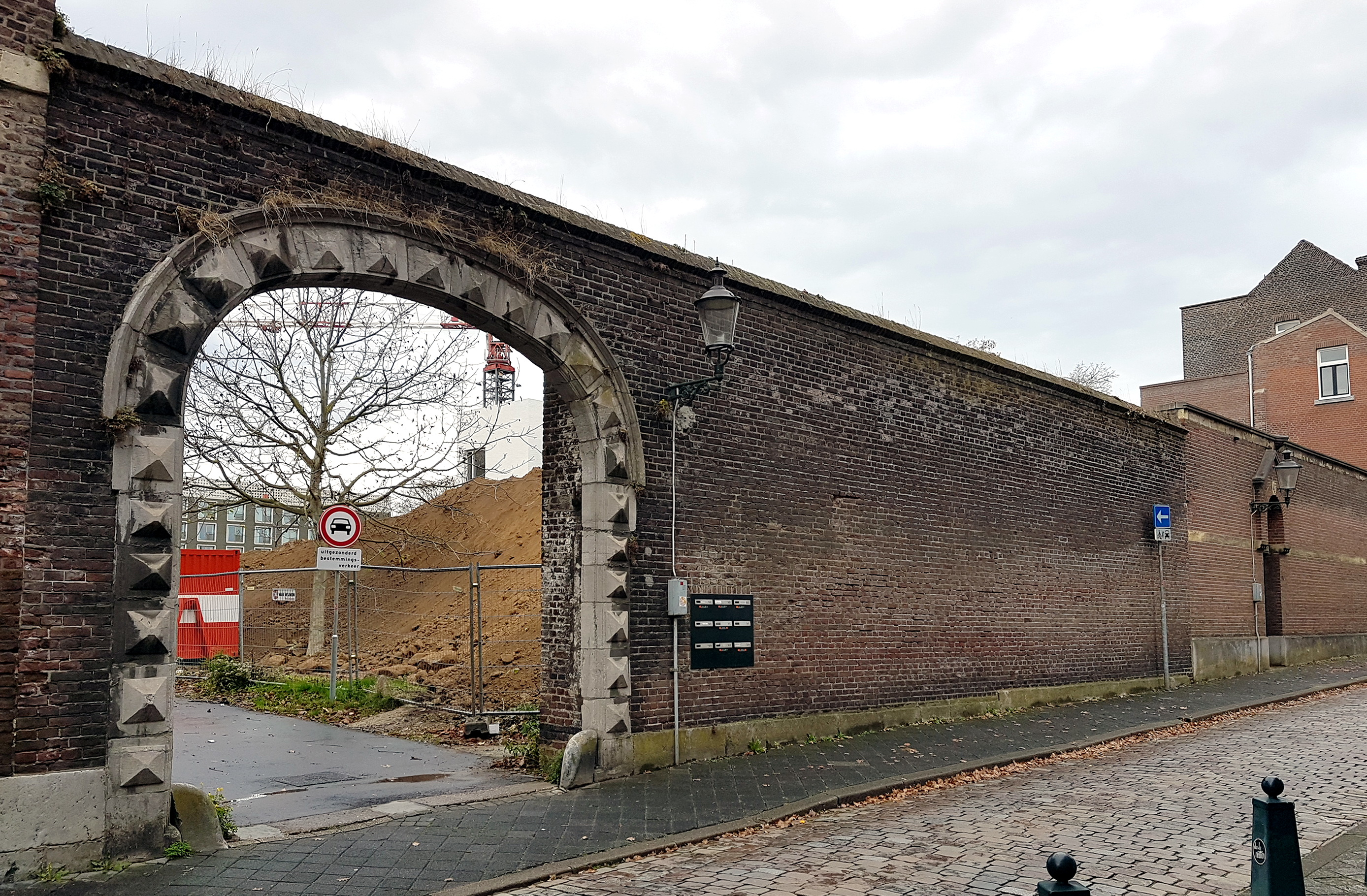 View of an 18th-century gate and a brick wall in Abtstraat in Maastricht, Netherlands.